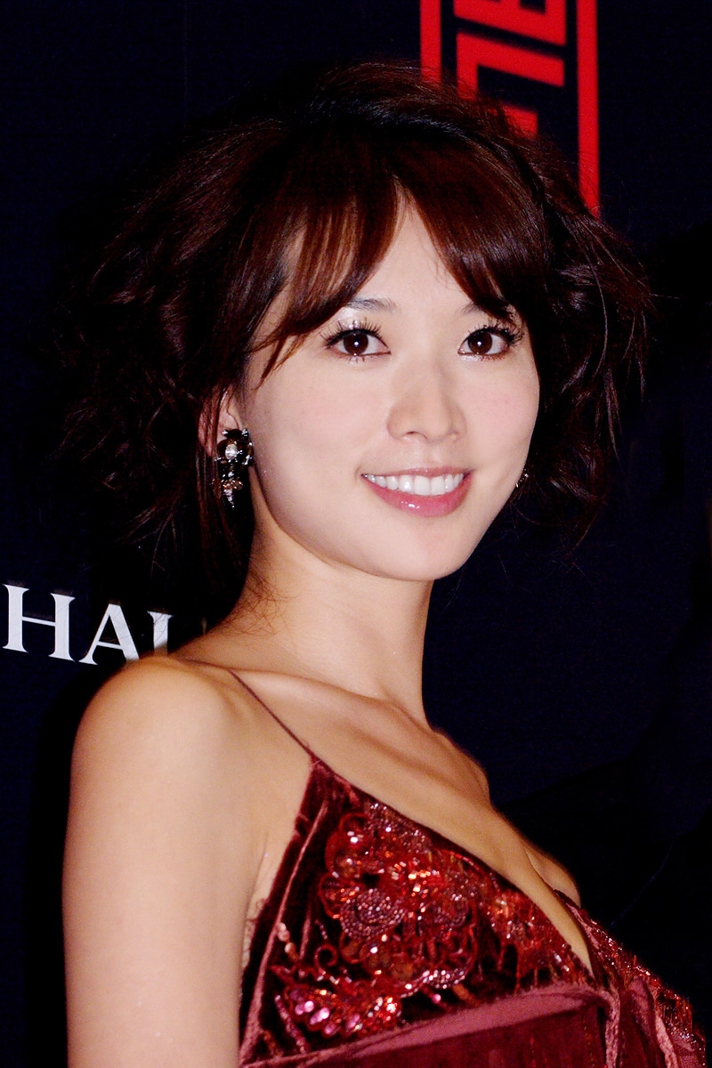 Chiling Lin at an international fashion party held by WestEast Magazine at Taipei 101 on July 2, 2005.